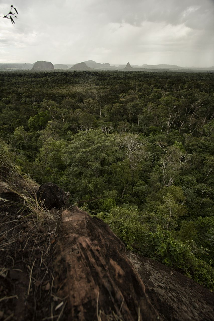 View from Cerro Muralla, in Cerro Cora National Park, Paraguay